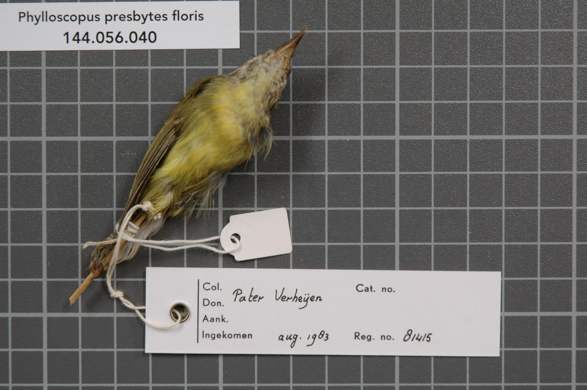 Phylloscopus presbytes floris (Hartert, 1898)